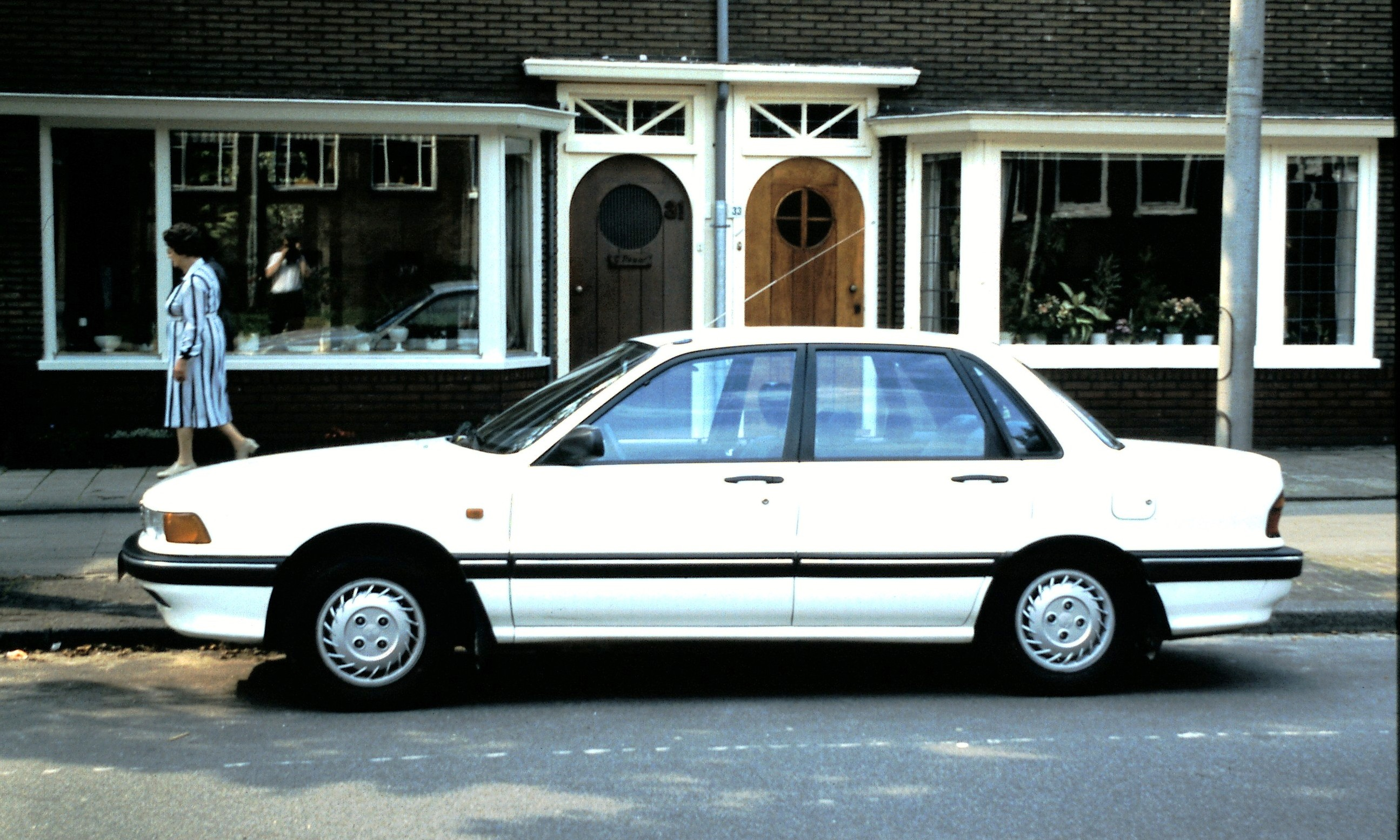 Mitsubishi Galant at Utrecht